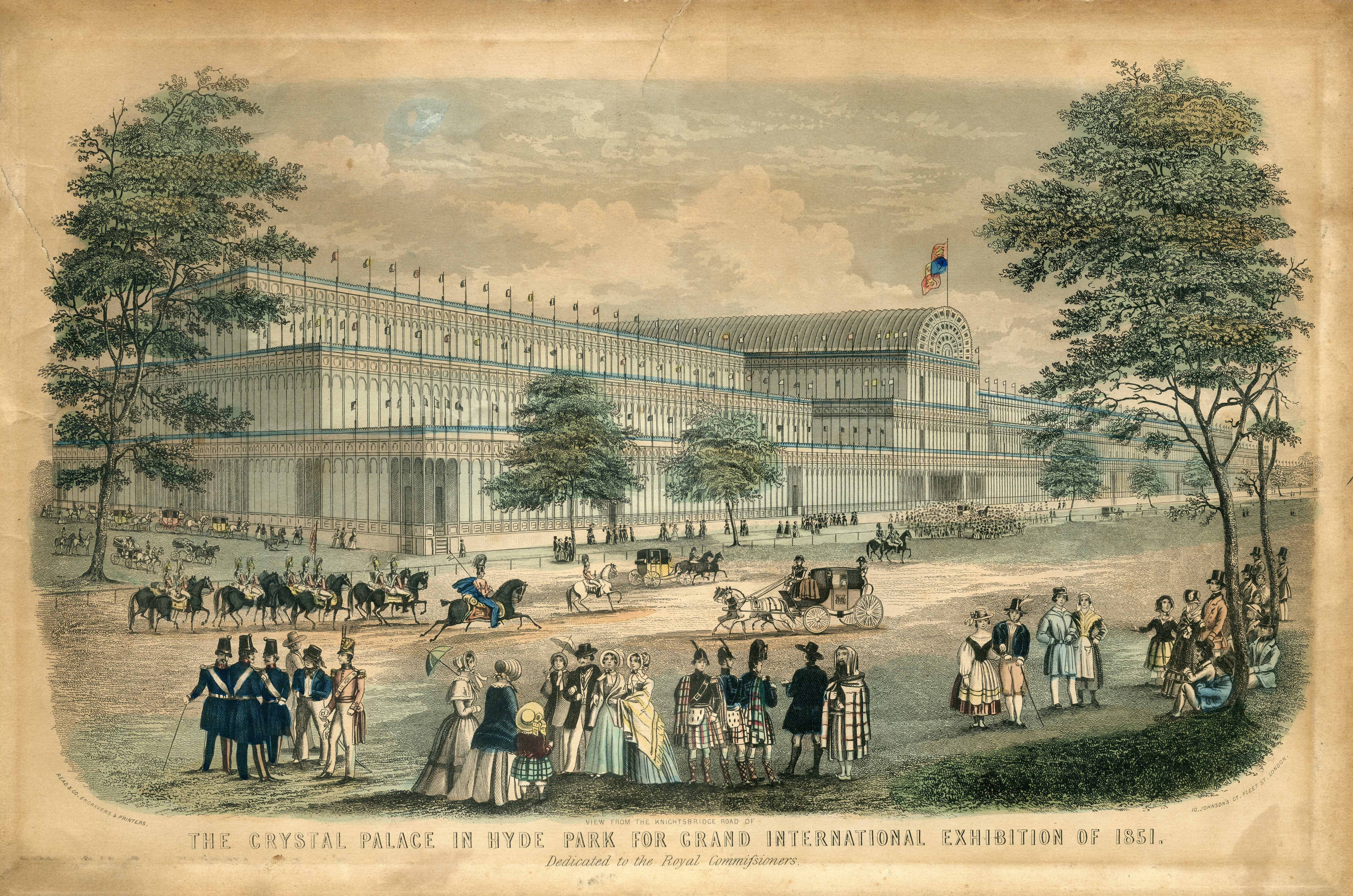 View from the Knightsbridge Road of The Crystal Palace in Hyde Park for Grand International Exhibition of 1851. Dedicated to the Royal Commissioners., London: Read & Co. Engravers & Printers, 1851.